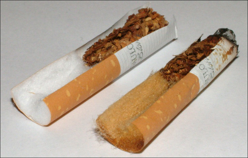 cigarette filters, used and unused. Material: cellulose acetat